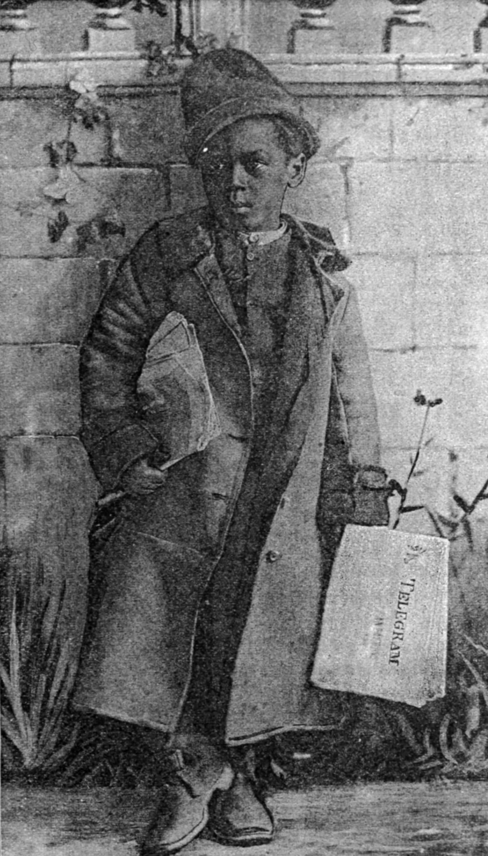 Title: The Afro-American press and its editors View Book Page: Book Viewer